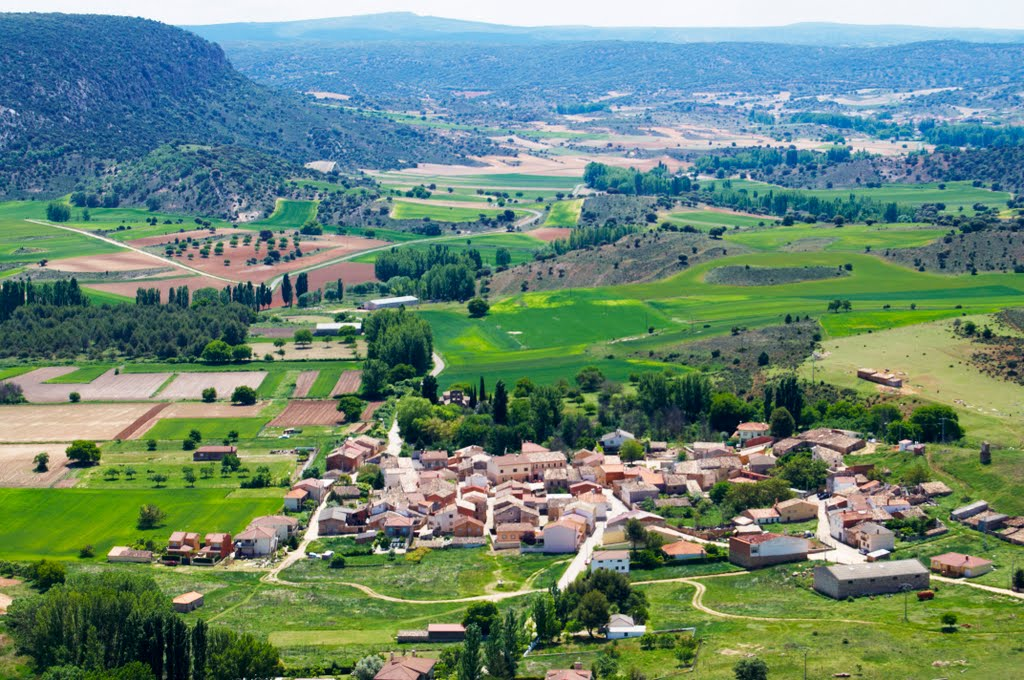 View of Huérmeces del Cerro, Guadalajara, Spain.